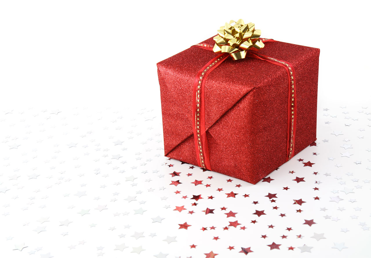 Red Christmas present on white background